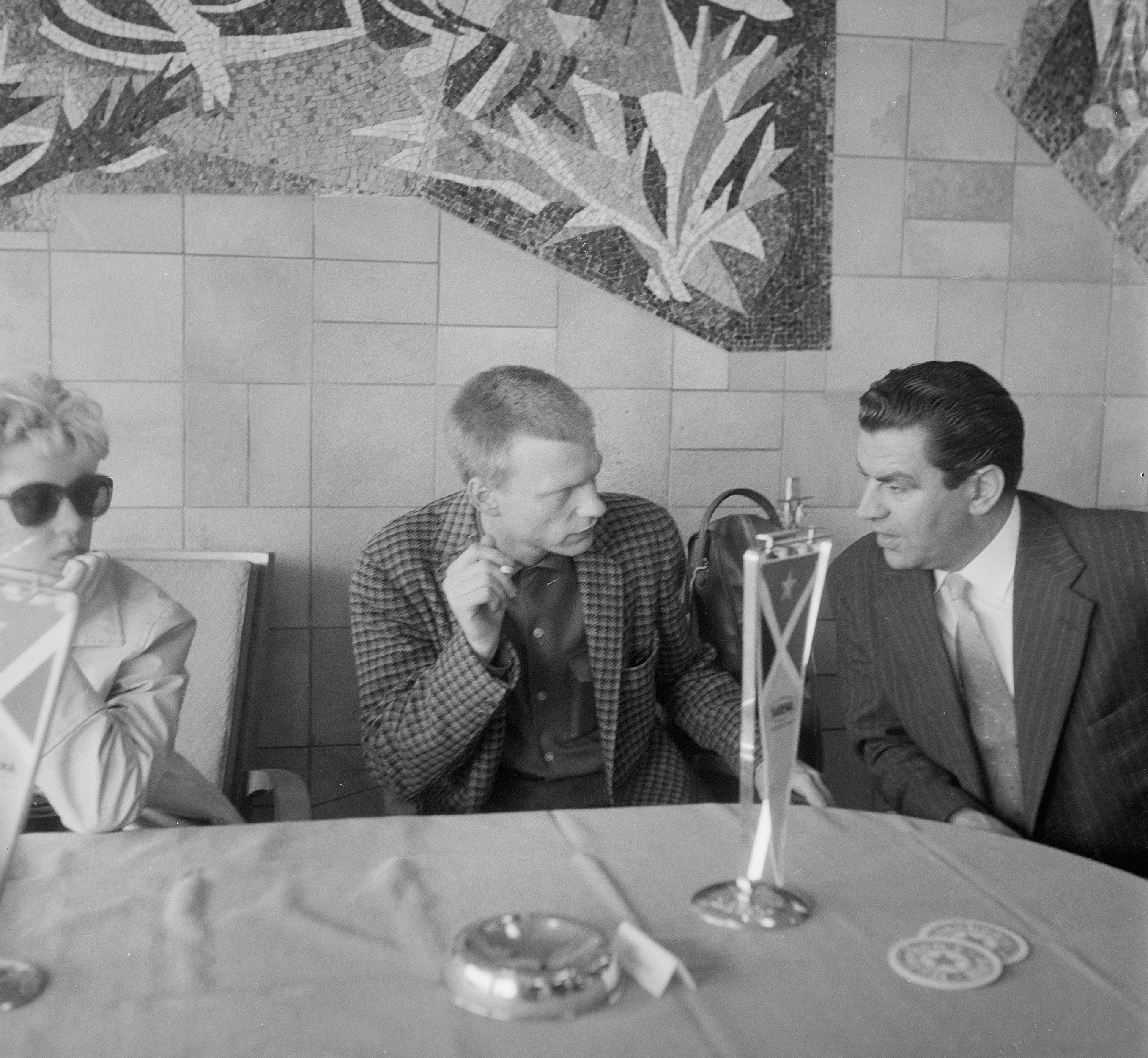 Gerry Mulligan at Schiphol (NL), 18 May 1957